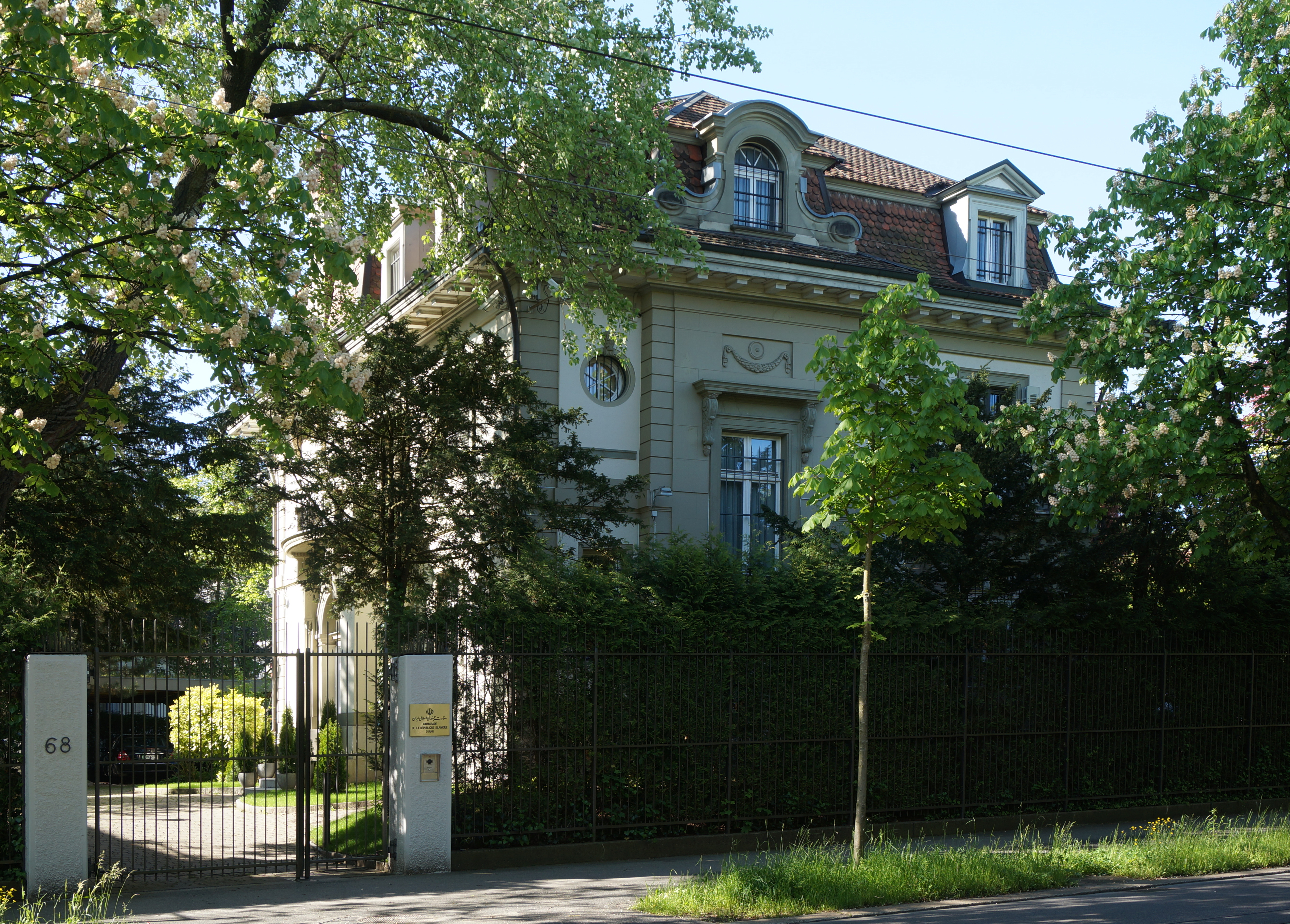 Bern, Thunstrasse 68. Iranian Embassy in Bern.